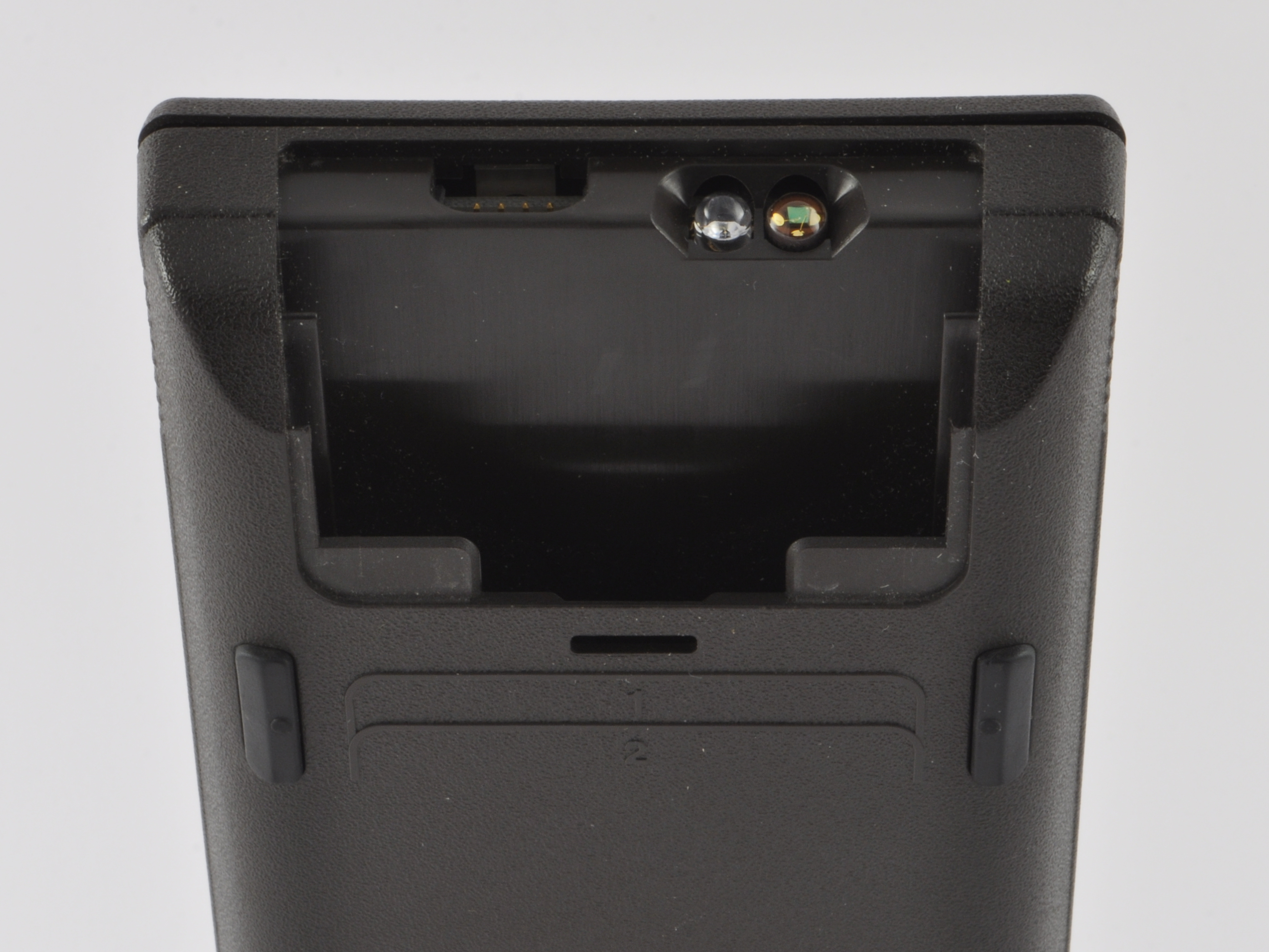 Expansion slot of Hewlett-Packard 48SX scientific graphing calculator.